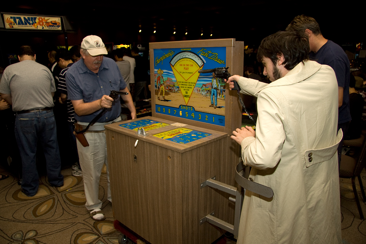 2 men playing arcade game Fast Draw (Southland Engineering Inc., 1964) at California Extreme Arcade pinball Show 2009